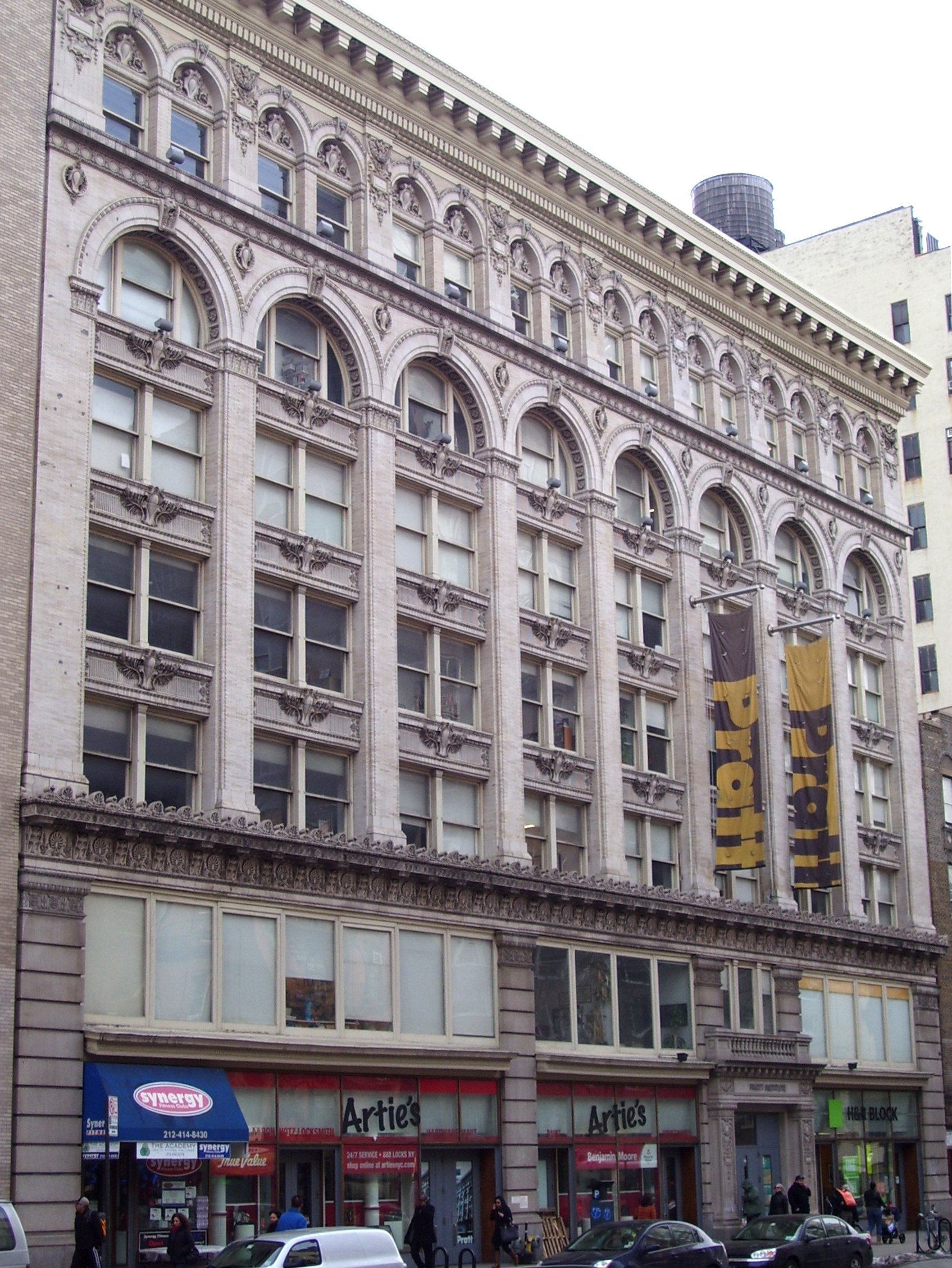 138-146 West 14th Street, between Sixth and Seventh Avenues in Manhattan, New York City, is a loft building constructed c.1899 in Roman Revival style. (Source: AIA Guide to NYC (4th ed.)) It is the location of the Manhattan campus of the Pratt Institute, an art school based in Brooklyn, which used the address 144 West 14th Street.